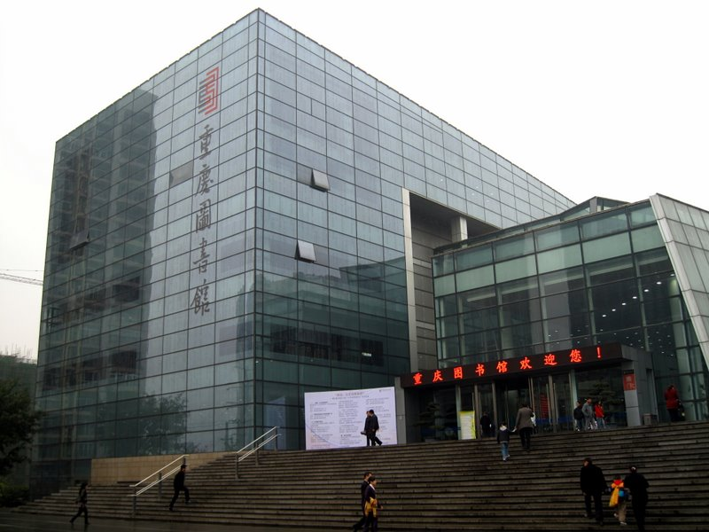 The south gate of Chongqing Library,China.